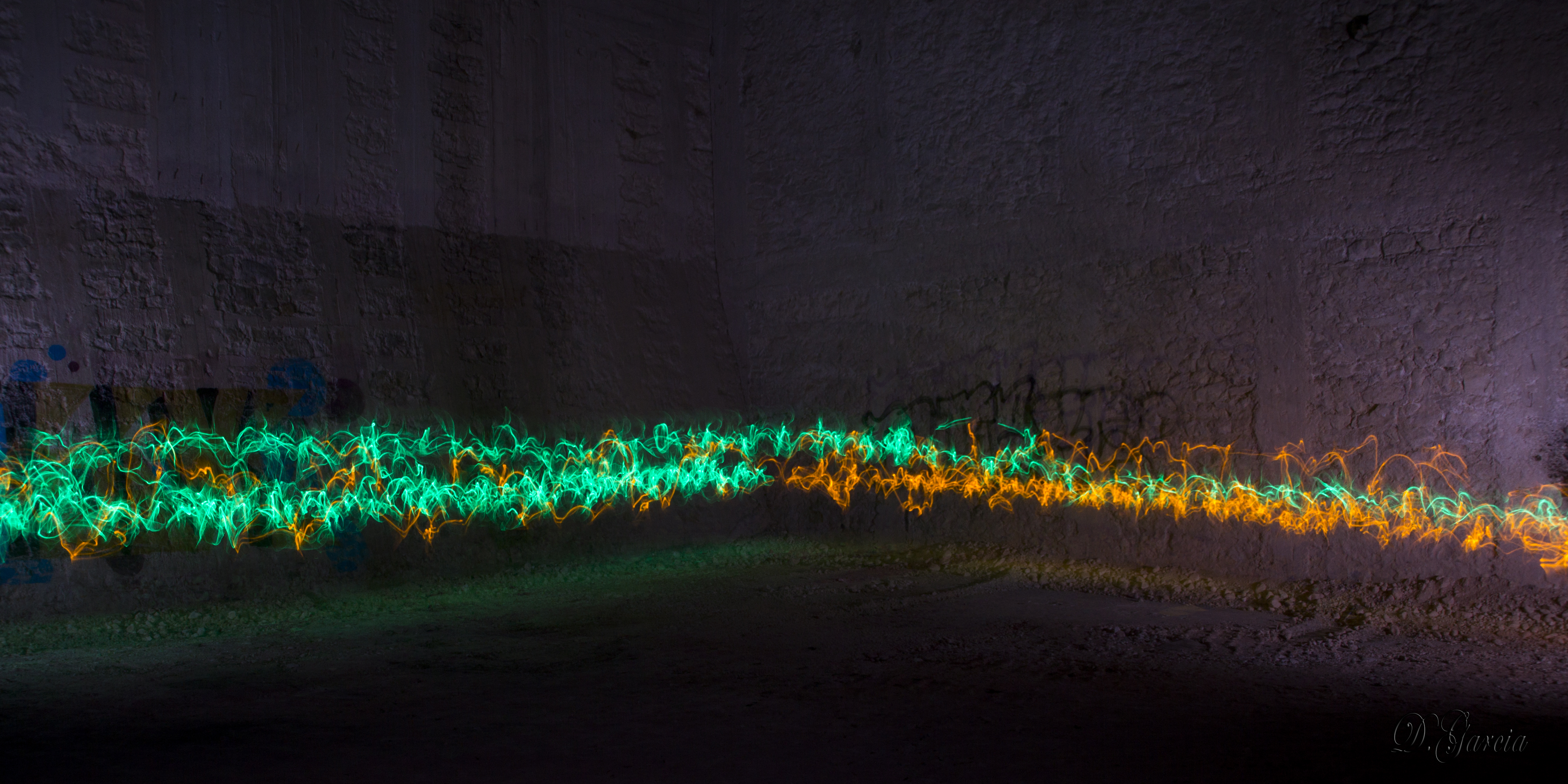 Light painting